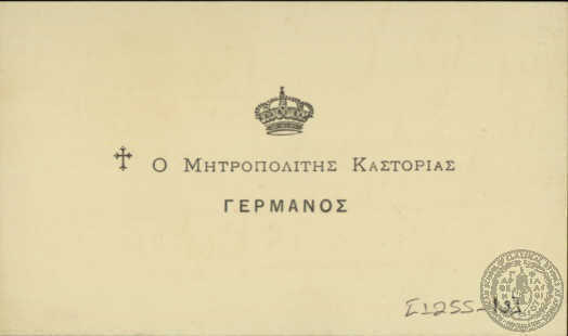 Germanos of Kastoria Letter to Ion Dragoumis